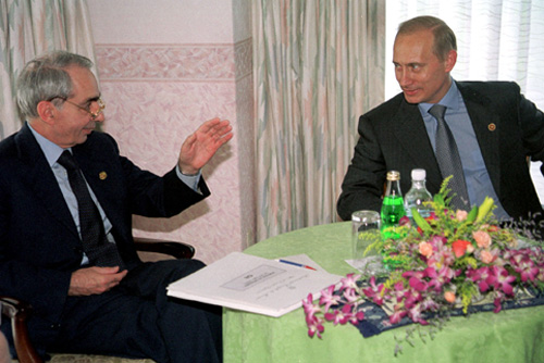 OKINAWA, JAPAN. President Putin with Italian Prime Minister Giuliano Amato.